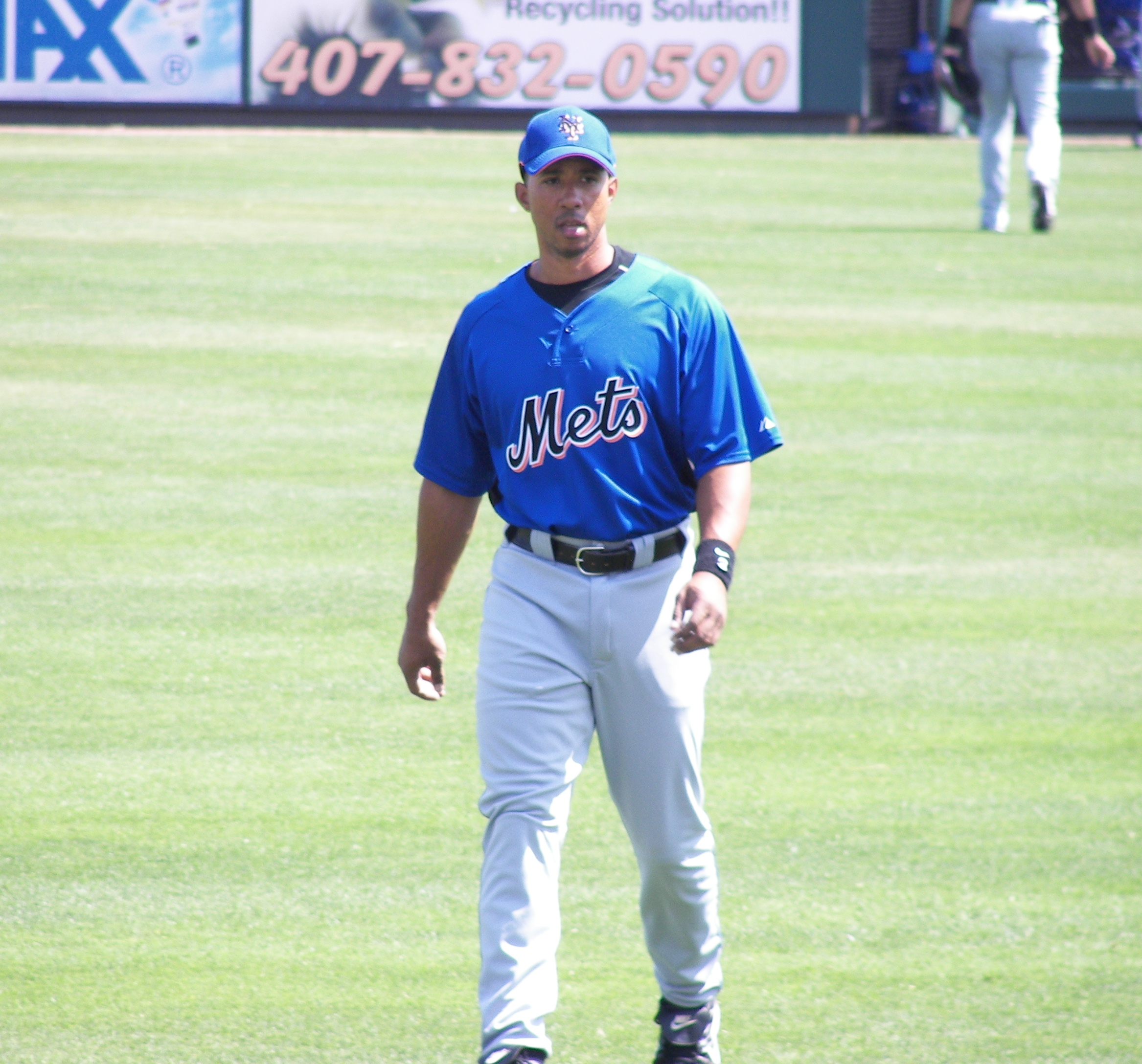 New York Mets infielder Damion Easley during a Mets/Detroit Tigers spring training game at Joker Marchant Stadium in Lakeland, Florida.